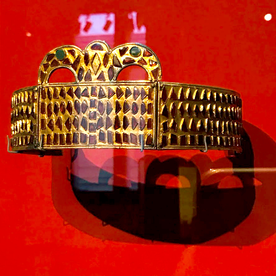 The Crown of Kerch